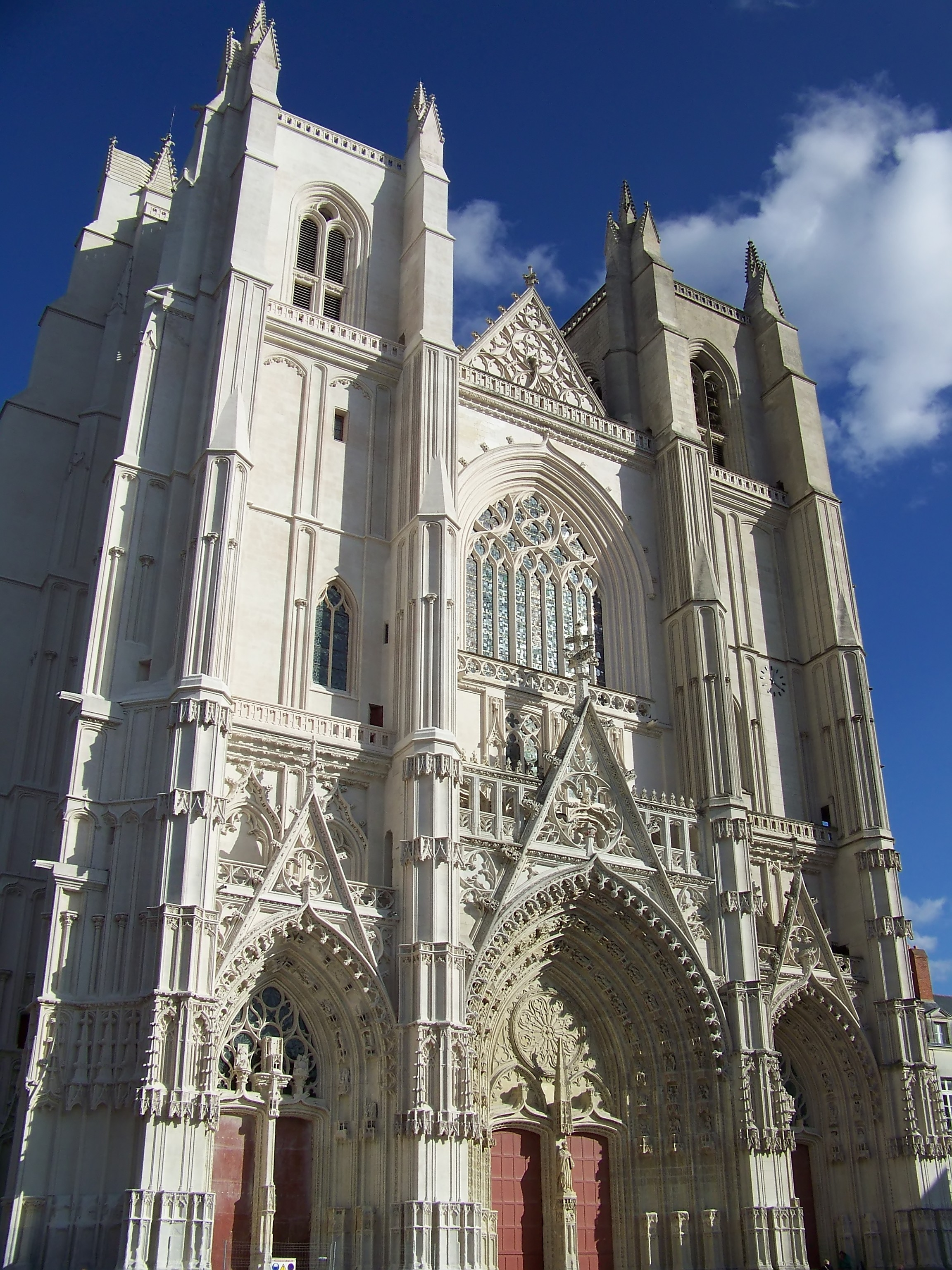 Cathédrale Saint-Pierre et Saint-Paul de Nantes.